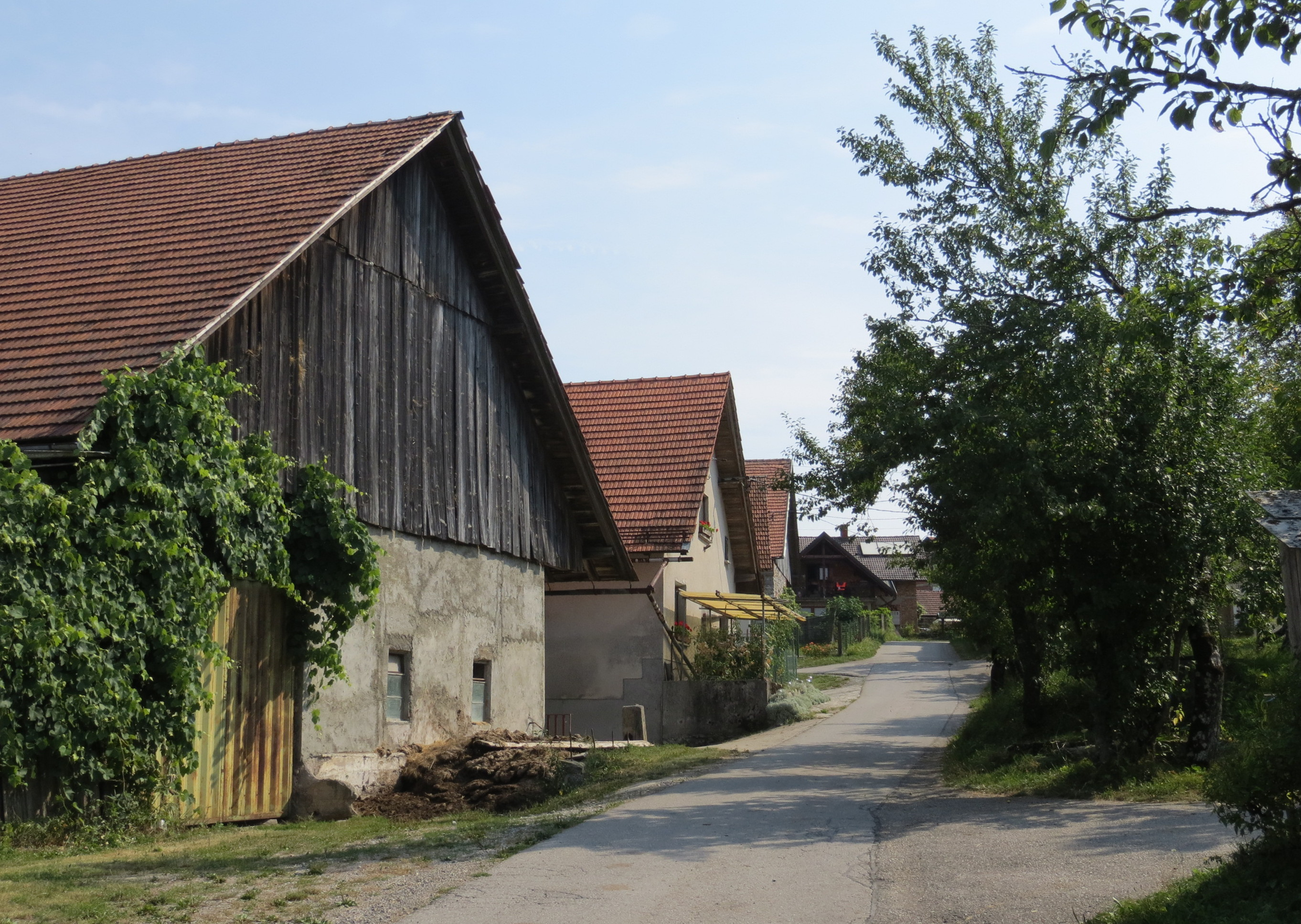 Zavrh pri Borovnici, Municipality of Vrhnika, Slovenia